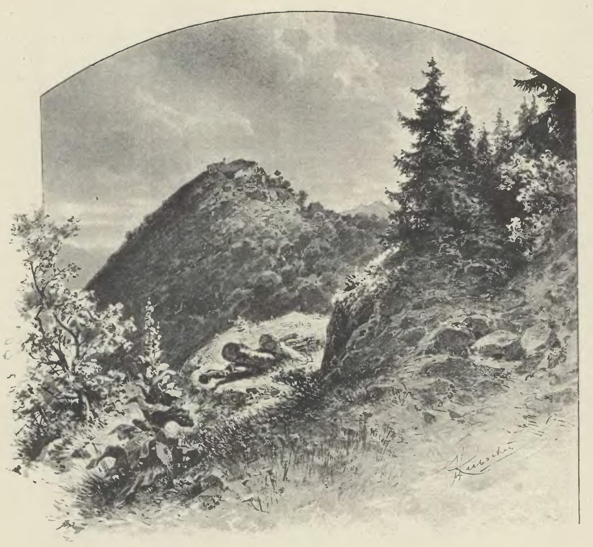 View of Lanšperk Castle, "Landšperk" in present-day Czech Republic.